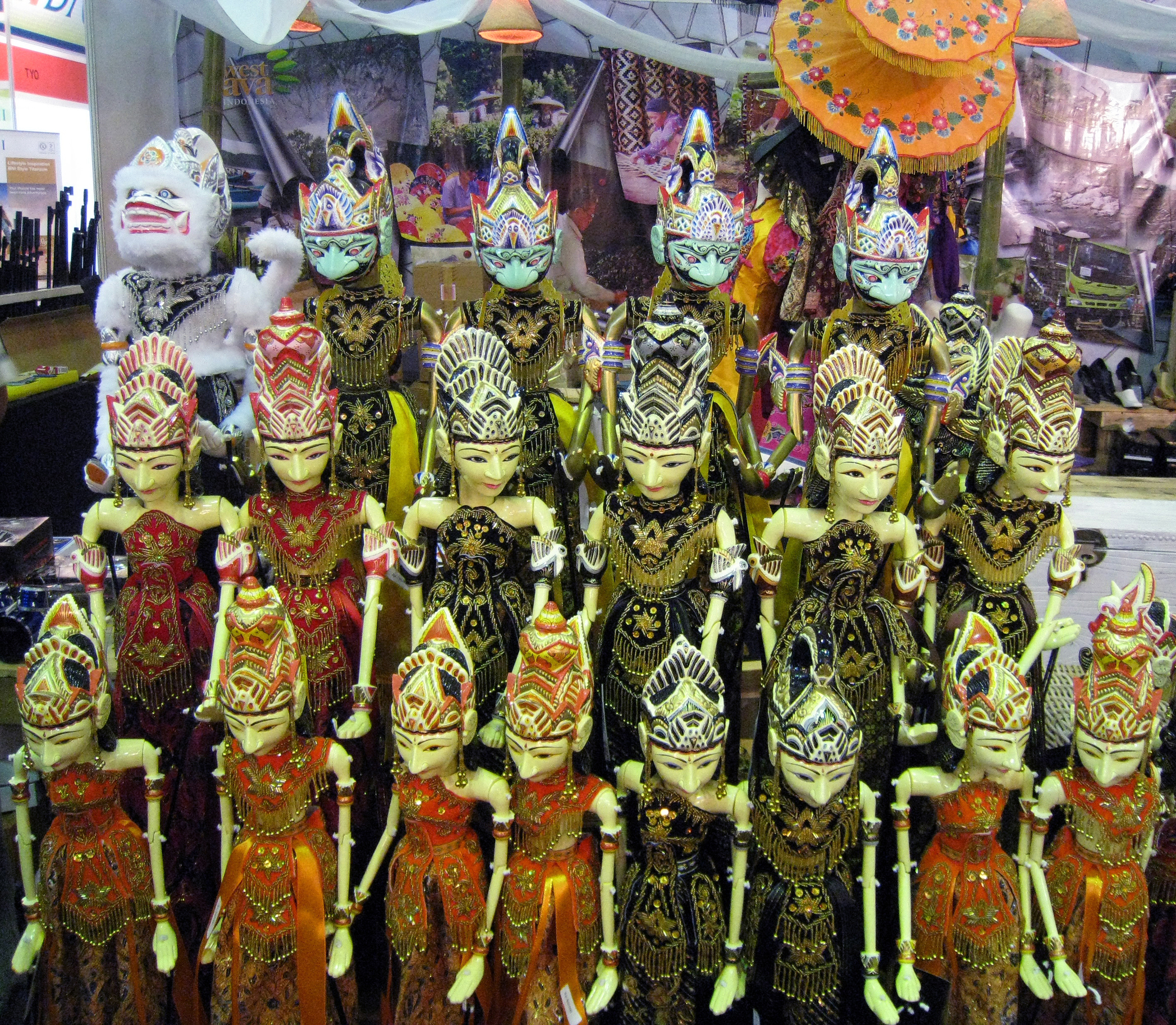 Rows of Wayang Golek display, the Sundanese wooden puppet from West Java, Indonesia, displayed in Jakarta Fair 2010. The Wayang Golek characters are Hanuman on top left, several Gatutkaca on top row, and pairs of Rama and Shinta on center and botom rows.